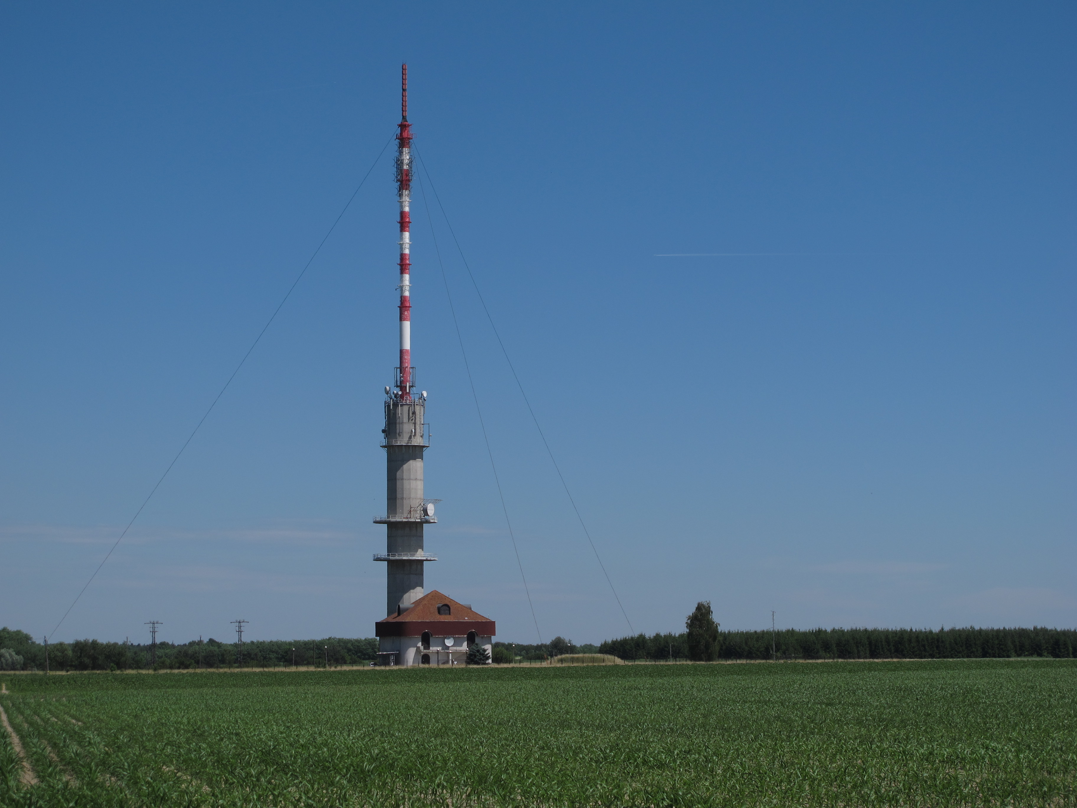 Hegyhátsál TV Tower